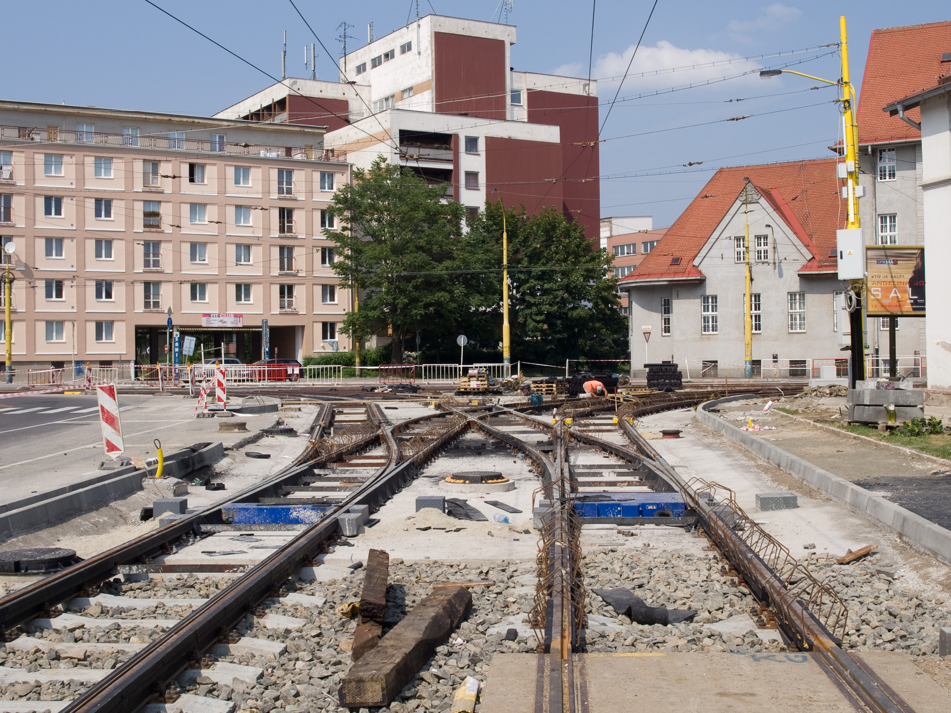 Radnica Starého mesta, crossroad reconstruction, Košice